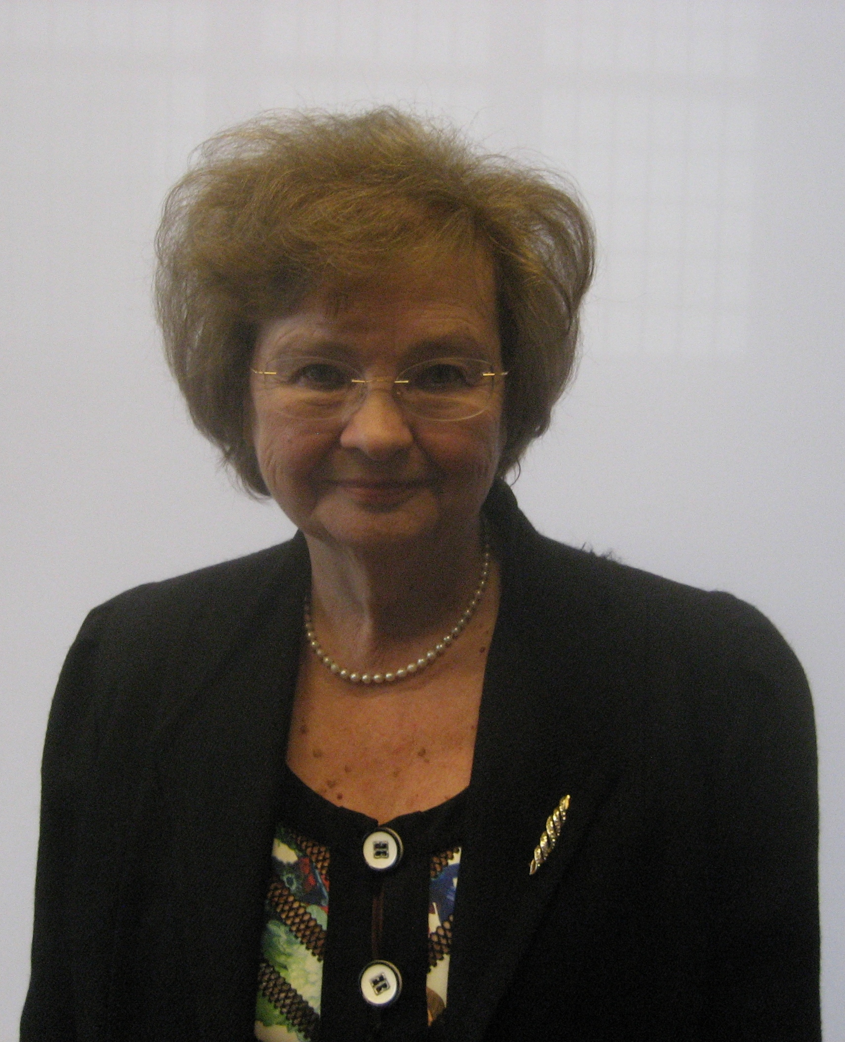 Els Witte (Leiden, Sept. 2016)